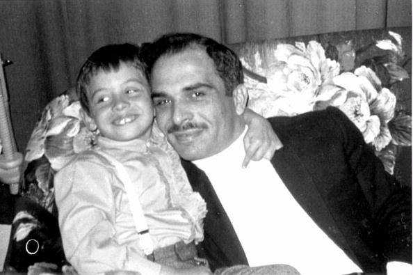 Current King of Jordan Abdullah II as a child with his father King Hussein